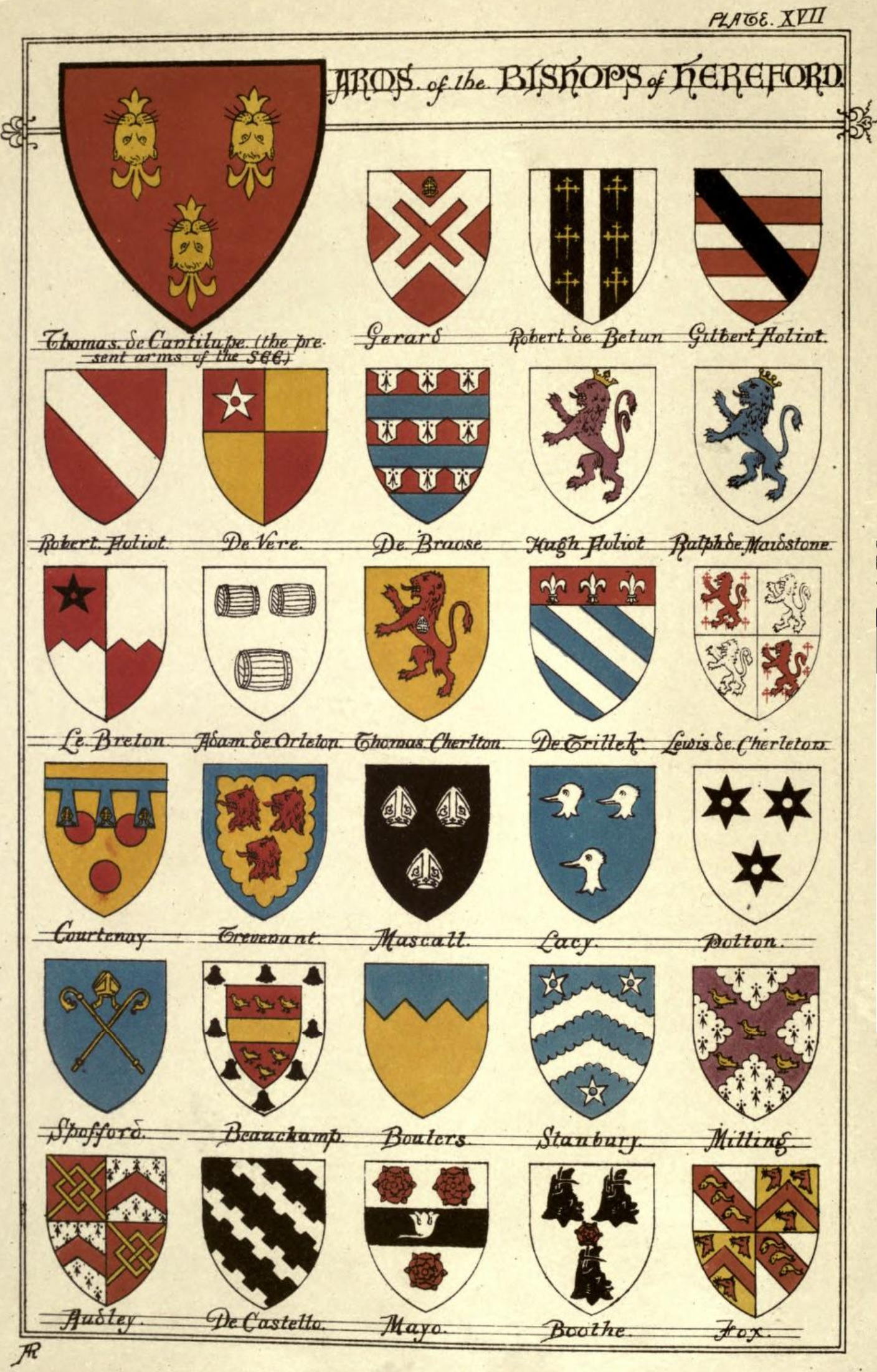 Arms of various Bishops of Hereford, Plate 17, published in Rev. Francis T. Havergal, Fasti Herefordenses, Edinburgh, 1869, pp.171 et seq[1]